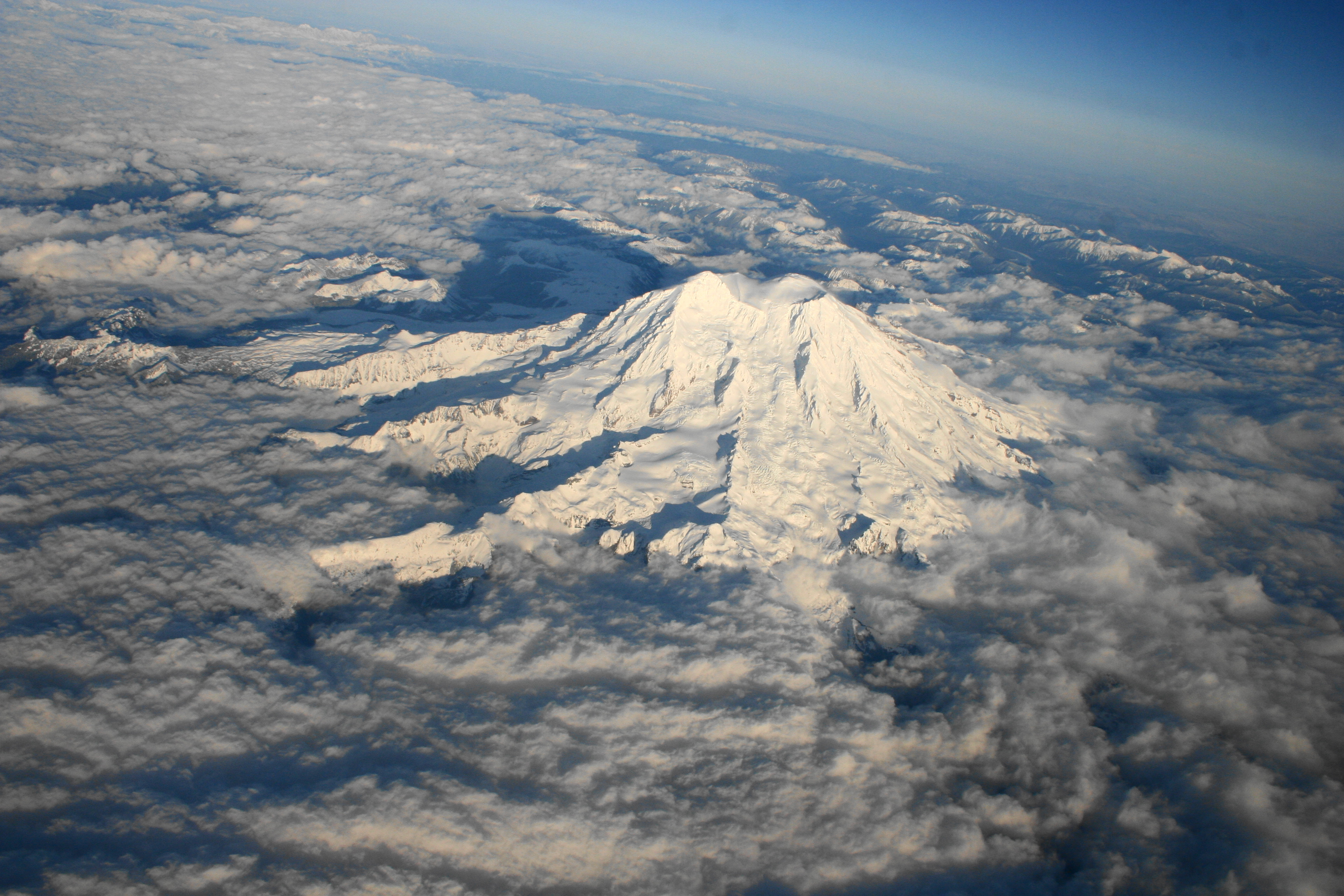 Aerial view looking from the northwest at Mount Rainier